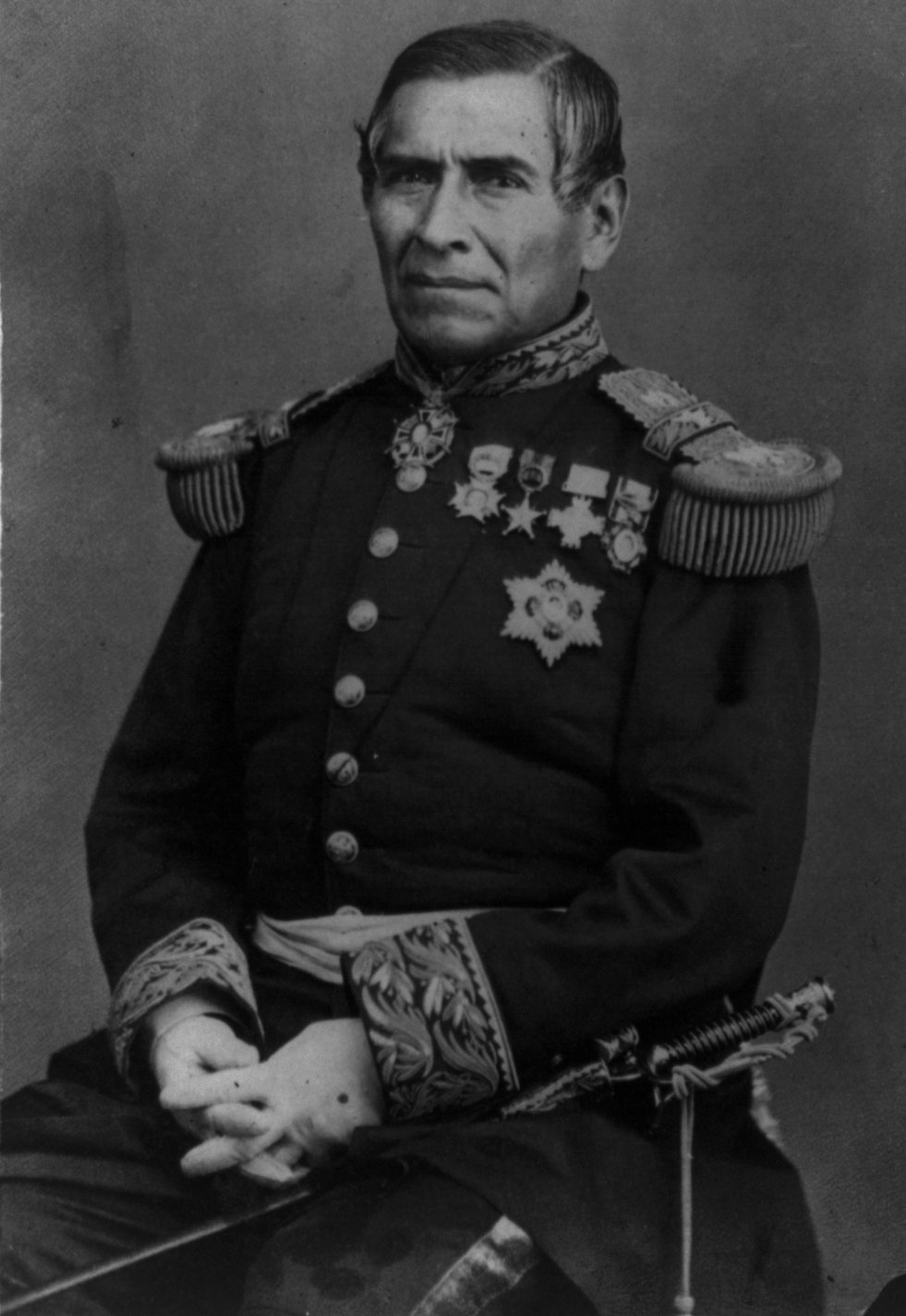 A half-length portrait (seated, facing front) of Juan Nepomuceno Almonte, a Mexican general, politician and diplomat.